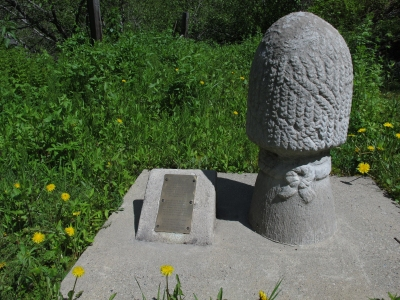 Verigin Memorial on the Paulson-Castlegar portion of the Columbia and Western Railway cycling trail